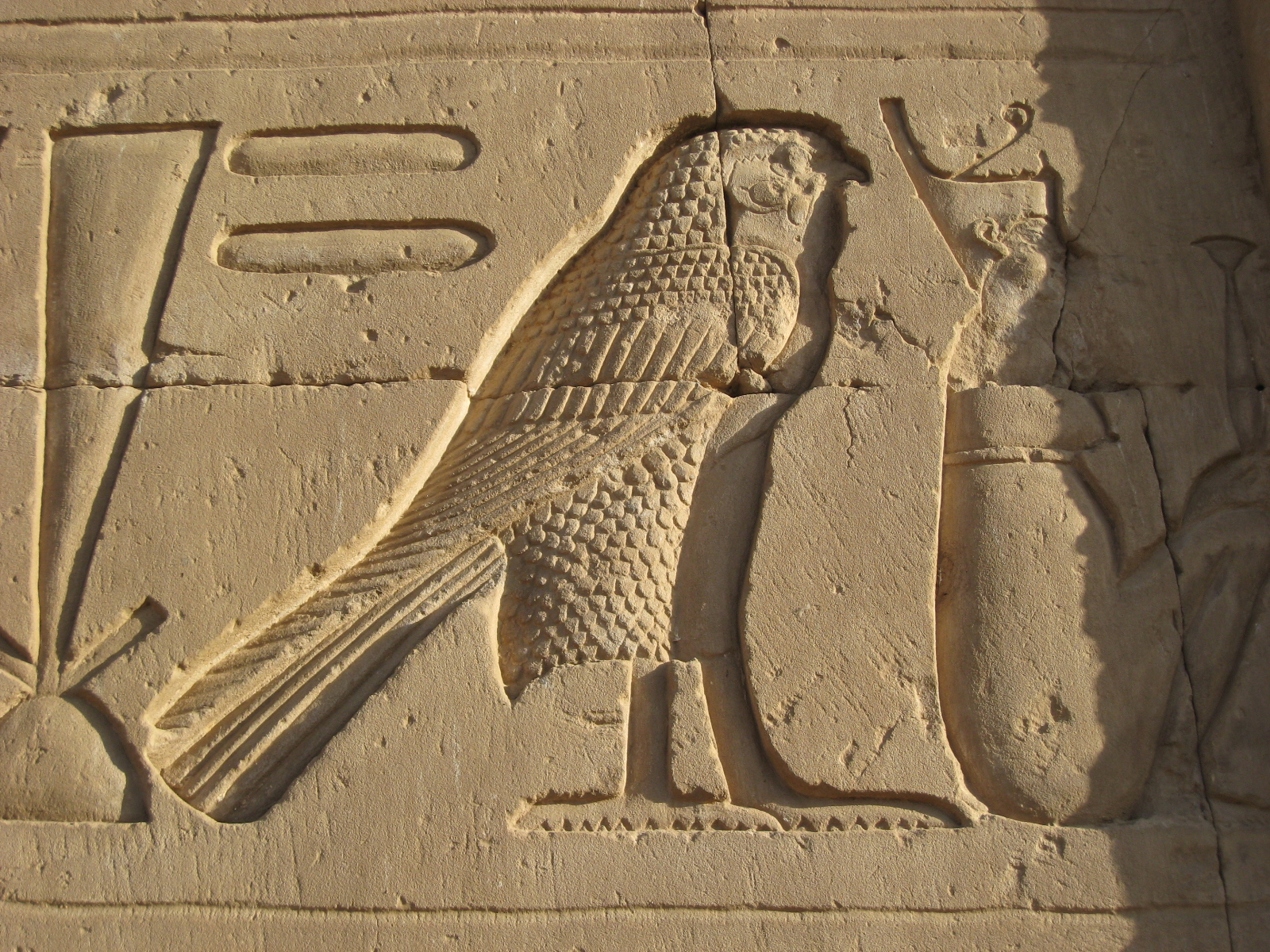 Horakhty "Horus of the Two Horizons". IMG_7082